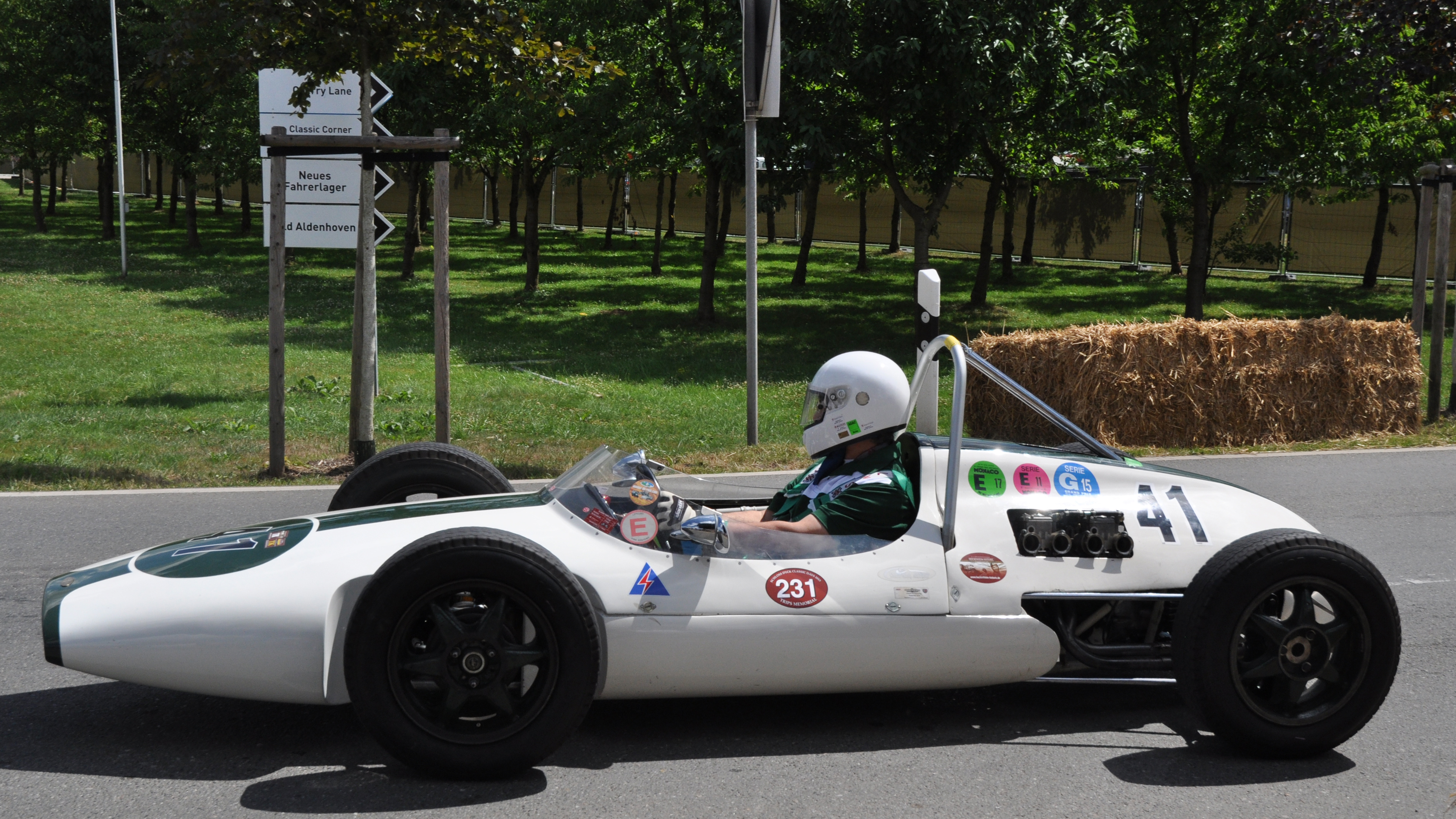 Emeryson Formel Junior (1960)) at the Classic Days Schloß Dyck